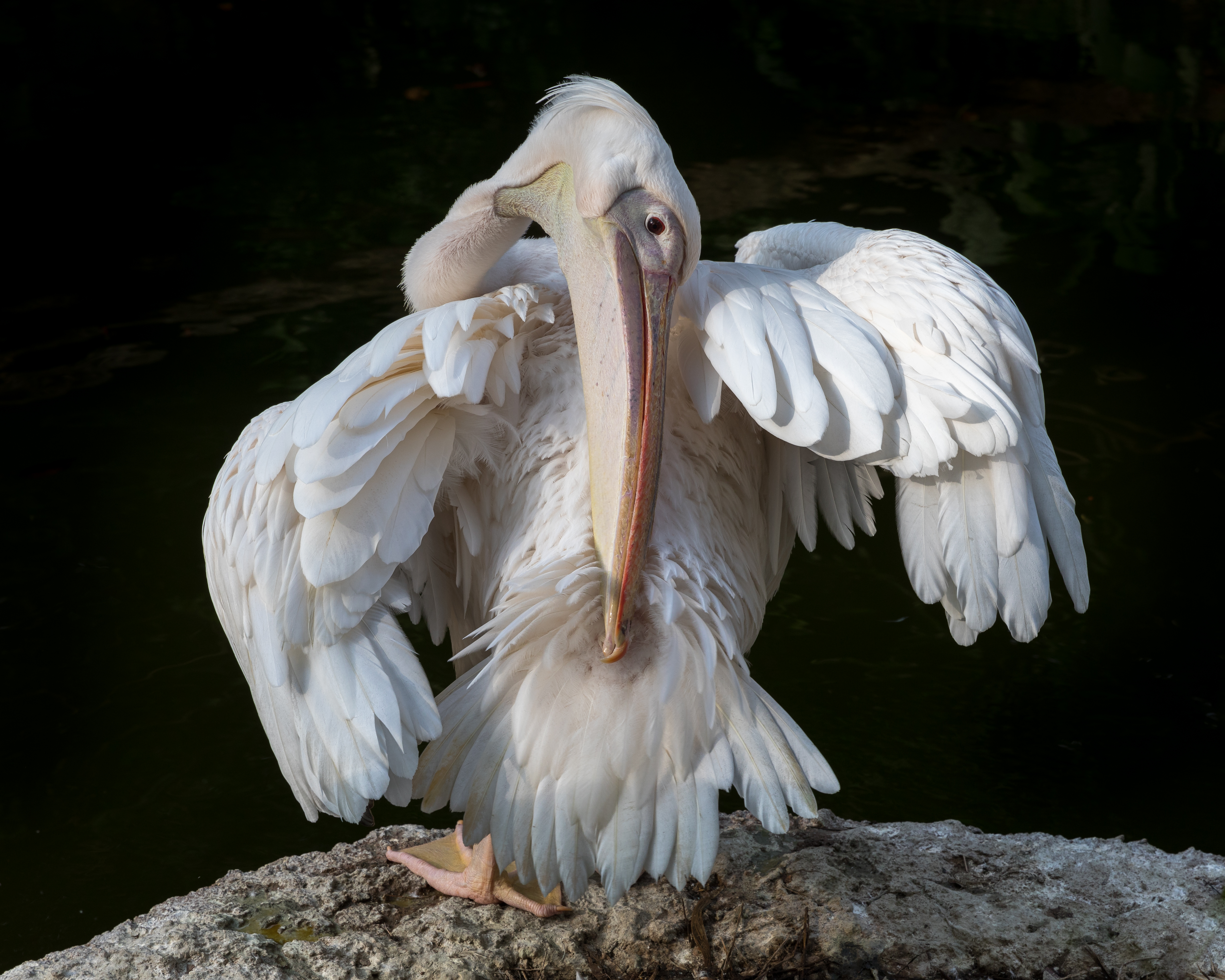 Pelecanus onocrotalus (Great white pelican) cleaning the feathers of its back with its long beak by writhing the neck, at sunset, in Singapore Zoo